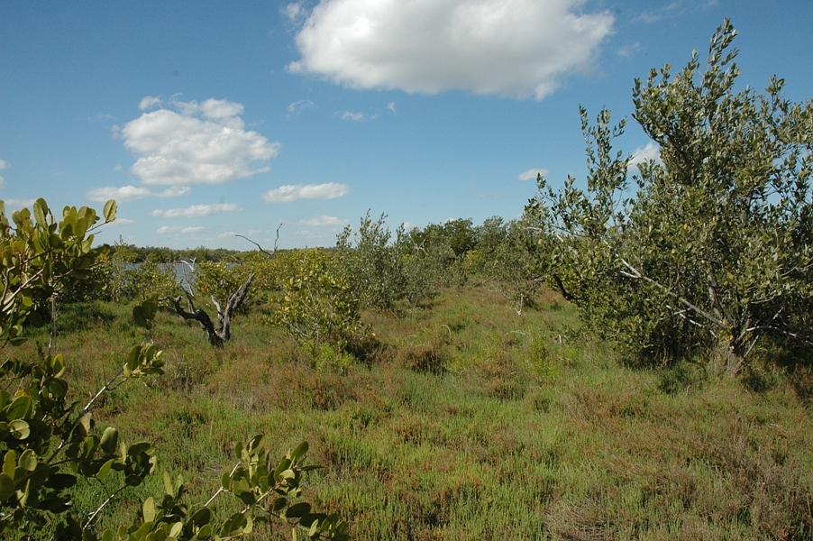 This is an example of unmodified succulent salt marsh and mangrove plant community in Thousand Islands, Cocoa Beach, Florida.